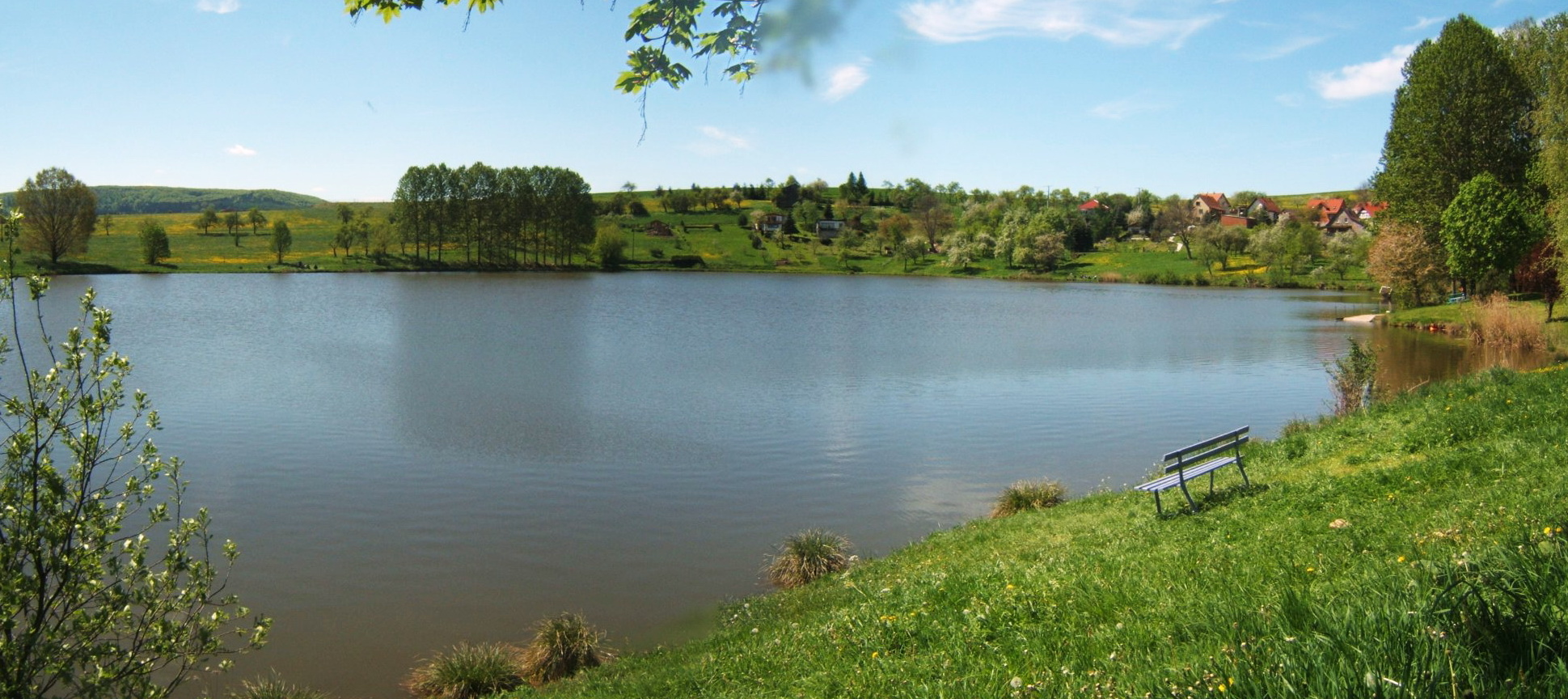 Lake in Seeba/Thuringia